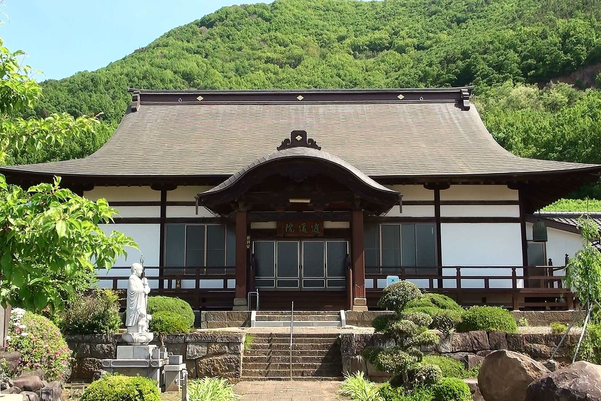 Shouyouin temple Kofu-city